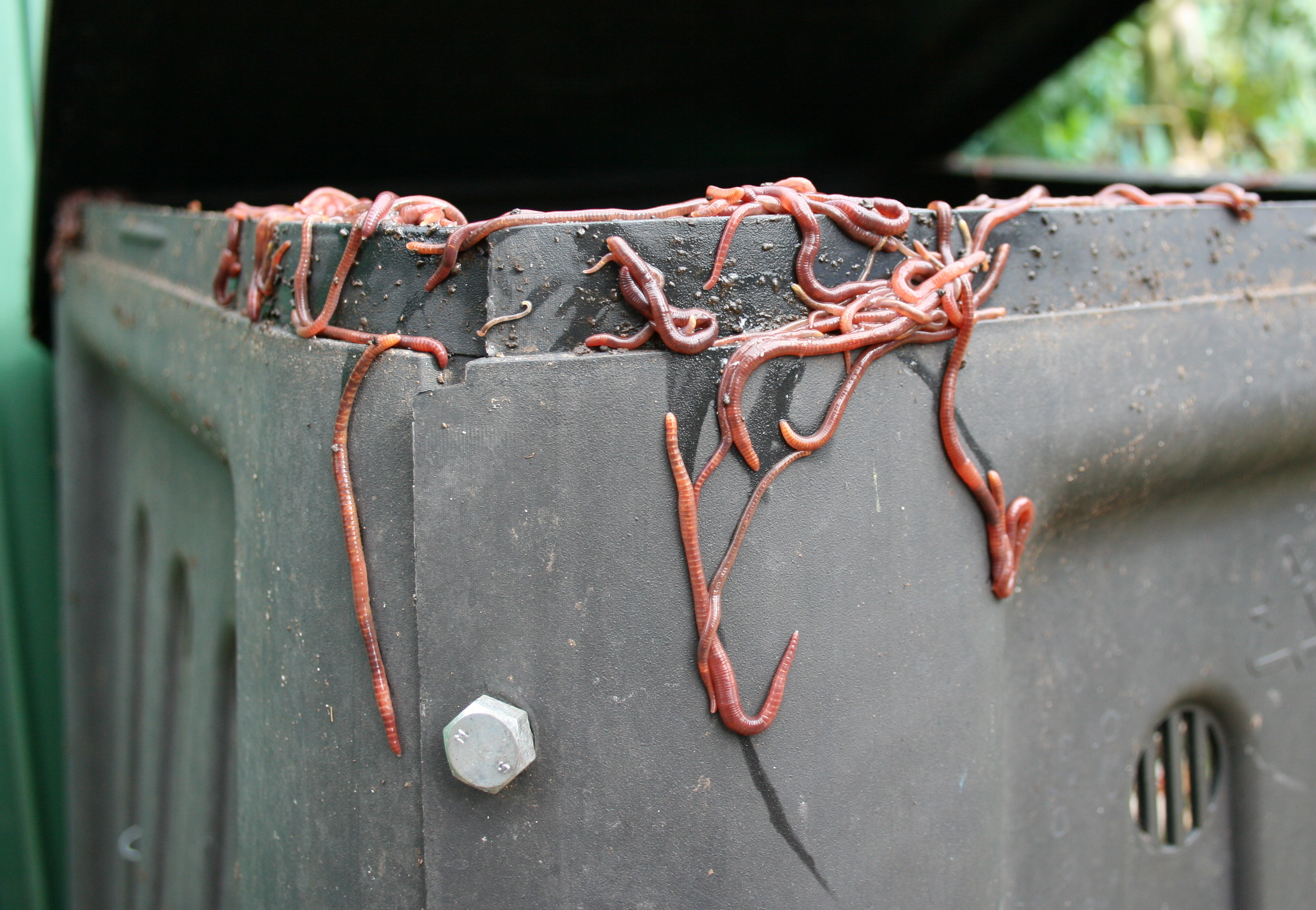 Compost worms (eisenia foetida) that have risen to the lid of a compost bin during a rainy spell.